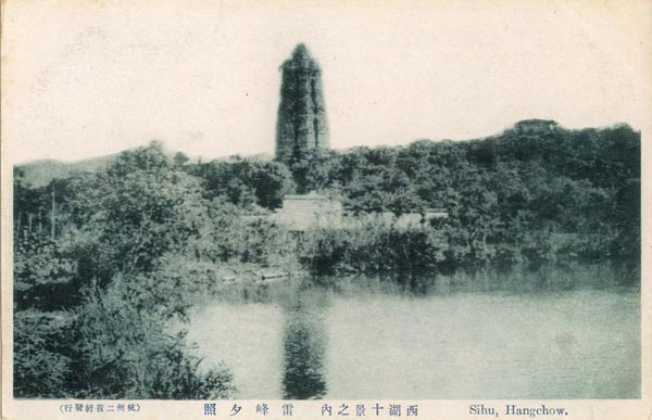 Postcard of West Lake, Hangzhou